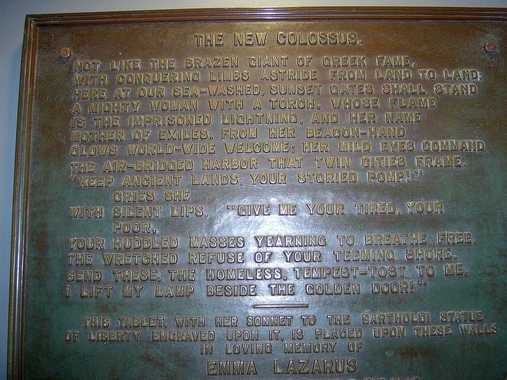 Plaque of The New Colossus poem by Emma Lazarus ("Mother of Exiles") in the museum inside the pedestal of the Statue of Liberty. Plaque was erected in 1903, see here